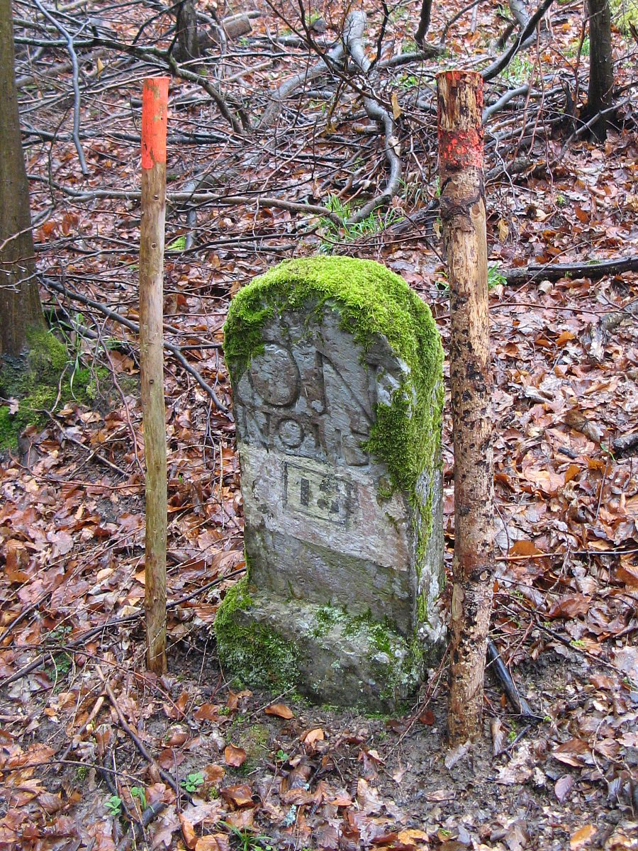 Historical Boundary stone of the border Oranien-Nassau. (set 1772/73)